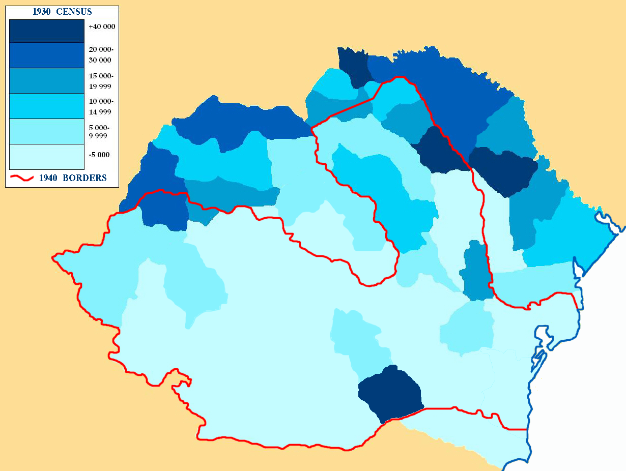 Created in October 2006 by Dahn, using Pixia. Jewish community per county in Greater Romania, according to the 1930 census/Comunitatea evreiasca in functie de judet in Romania Mare, dupa recensamantul din 1930; information source/sursa: Francisco Veiga, Istoria Garzii de Fier, Humanitas, Bucharest, 1993. Map partly based on the public domain/Harta folosind partial imaginea de domeniu public: Image:Judetele Romaniei interbelice.JPG.